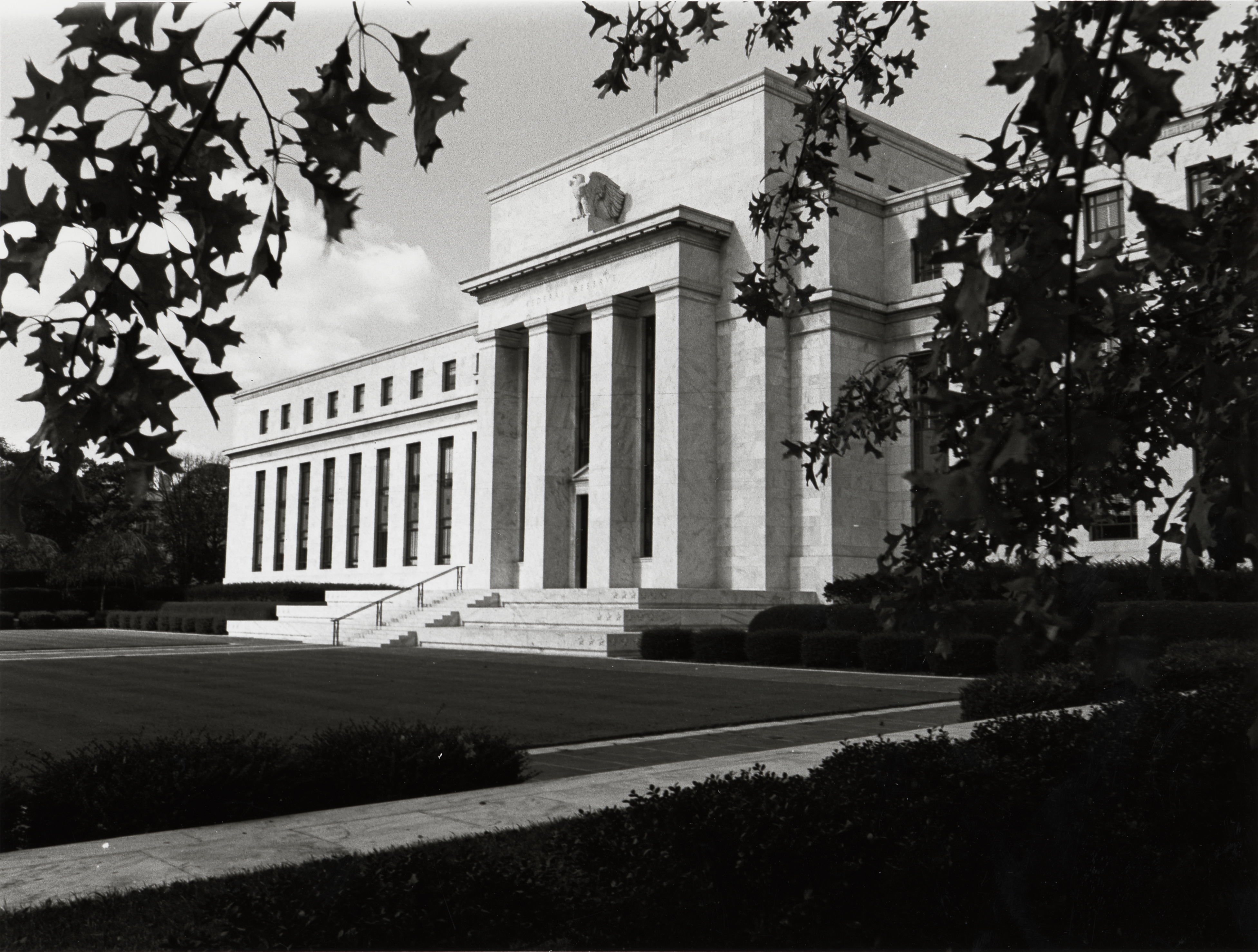 Eccles Building 10/20/1937